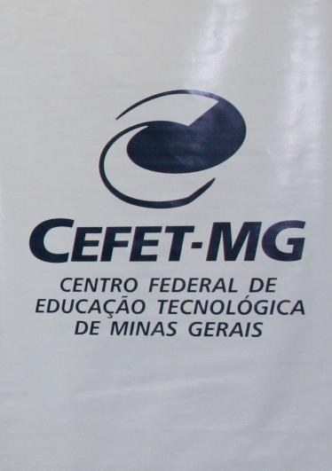 Detail of image File:Capeswebtv.jpg, in Centro Federal de Educação Tecnológica de Minas Gerais (Federal Center for Technological Education of Minas Gerais) and taken by a classmate camera. It is a work published or commissioned by a Brazilian government (federal) prior to 1983. The article Cefet-MG doesn't have a image for this federal center logo and this image in only to the article. The official can be found here.